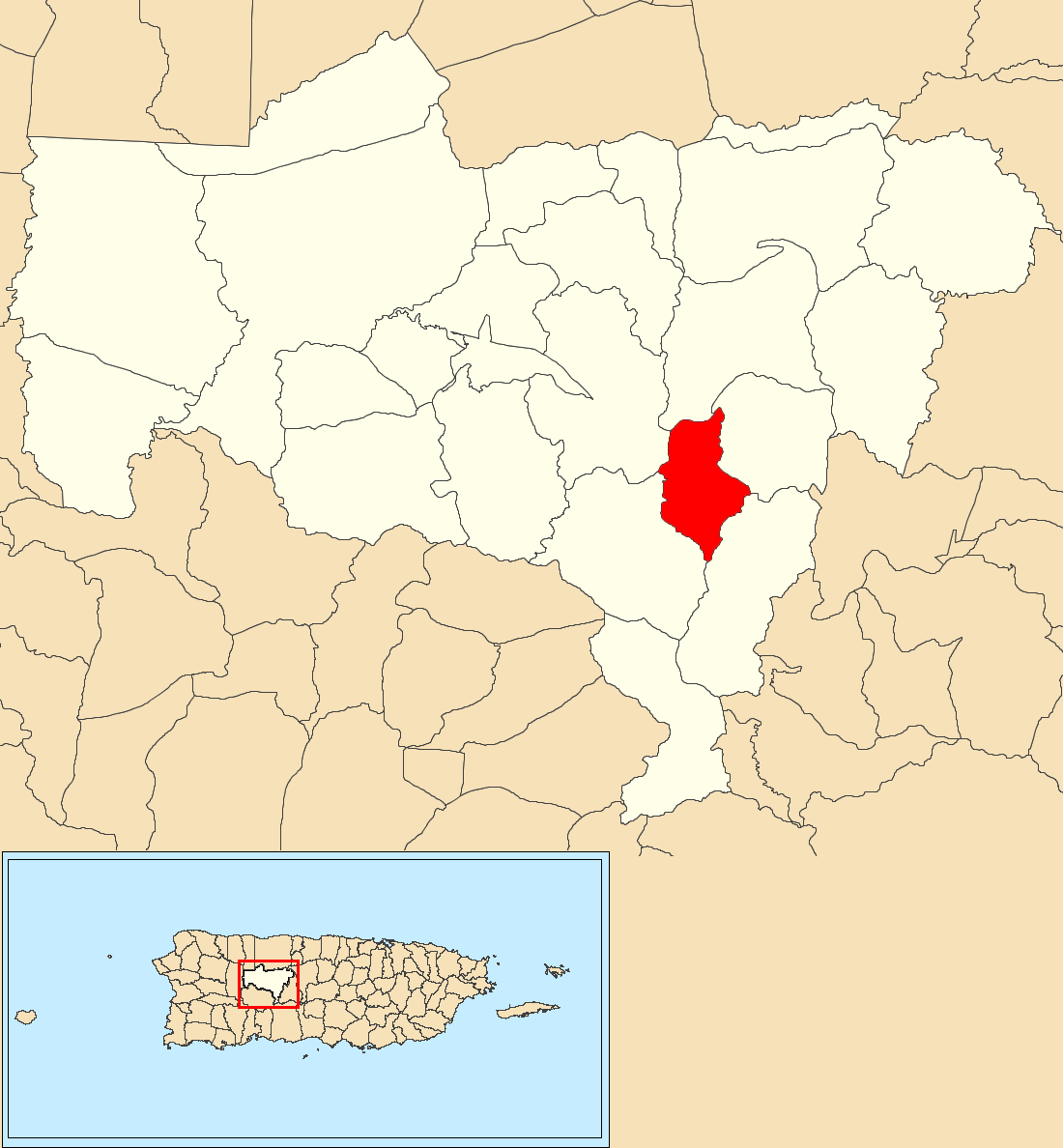 Las Palmas, Utuado, Puerto Rico locator map